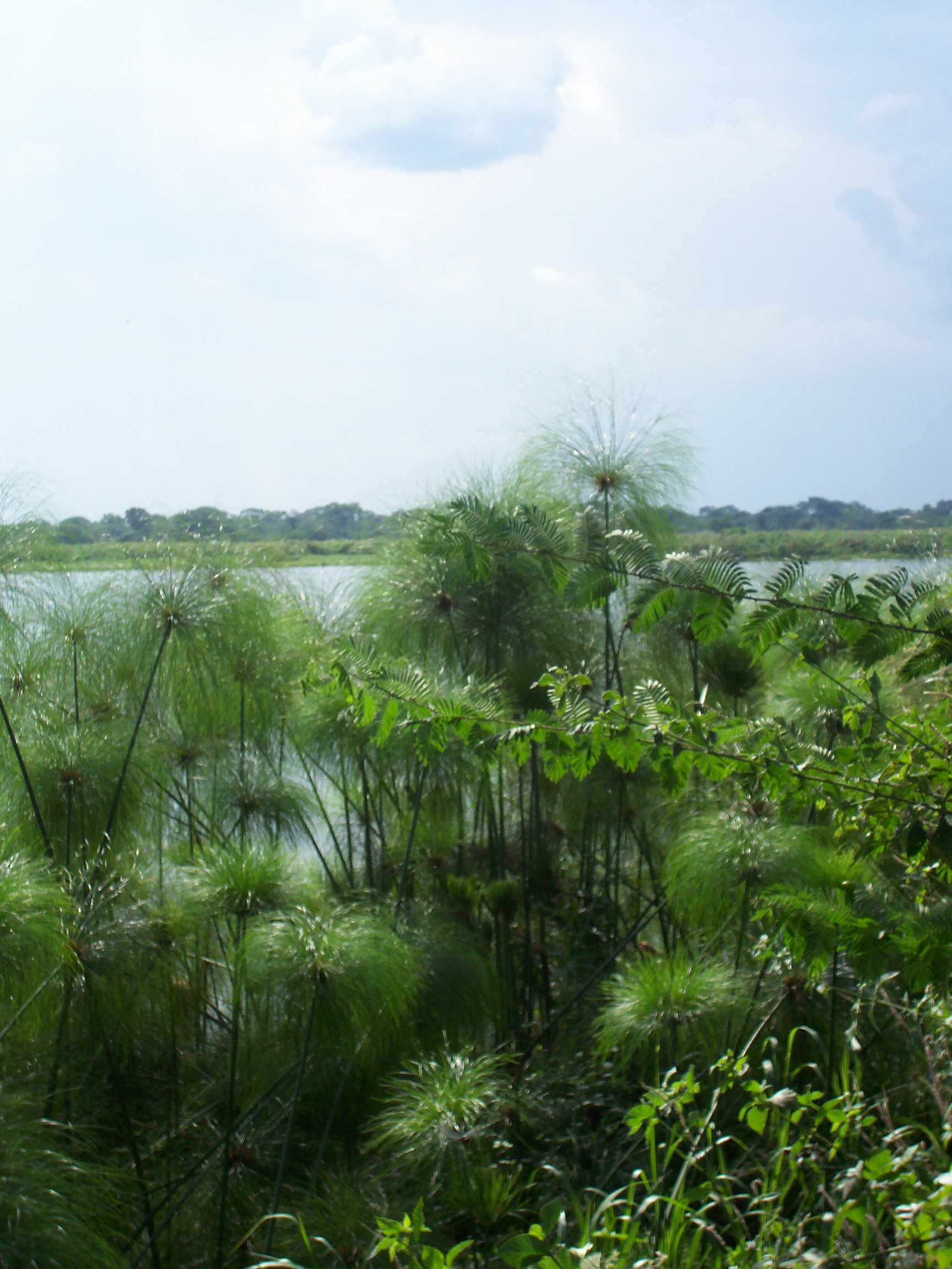 This is a photo of Papyrus growing wild along the banks of the Nile River in Uganda. It was taken by Michael Shade in the fall of 2006. Use it for whatever.